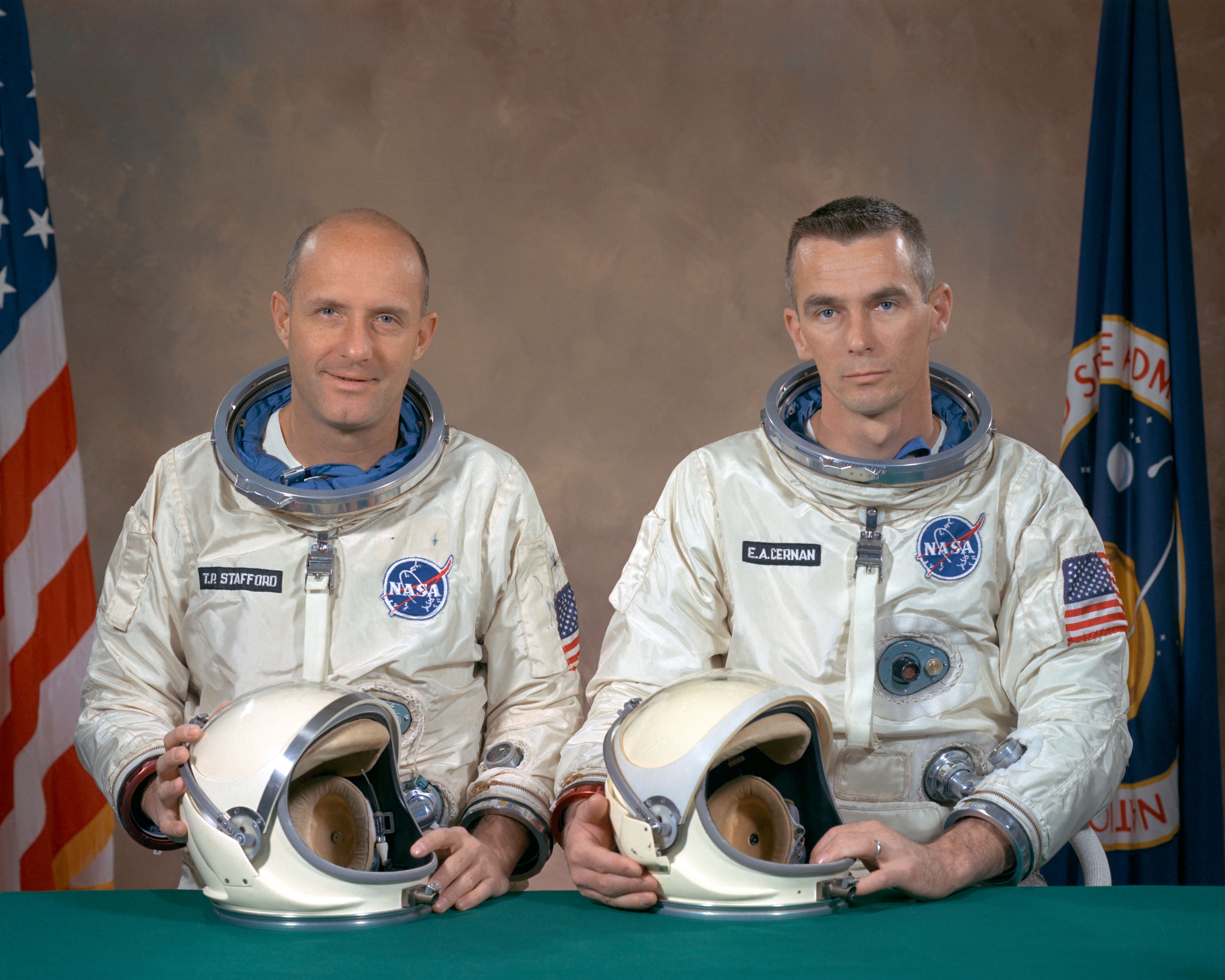 The Gemini 9 backup crew members are, Commander, Thomas P. Stafford and pilot Eugene A. Cernan. The back-up crew became the prime crew when on February 28, 1966 the prime crew for the Gemini 9 mission were killed when their twin seat T- 38 trainer jet aircraft crashed into a building during a landing approach in bad weather.